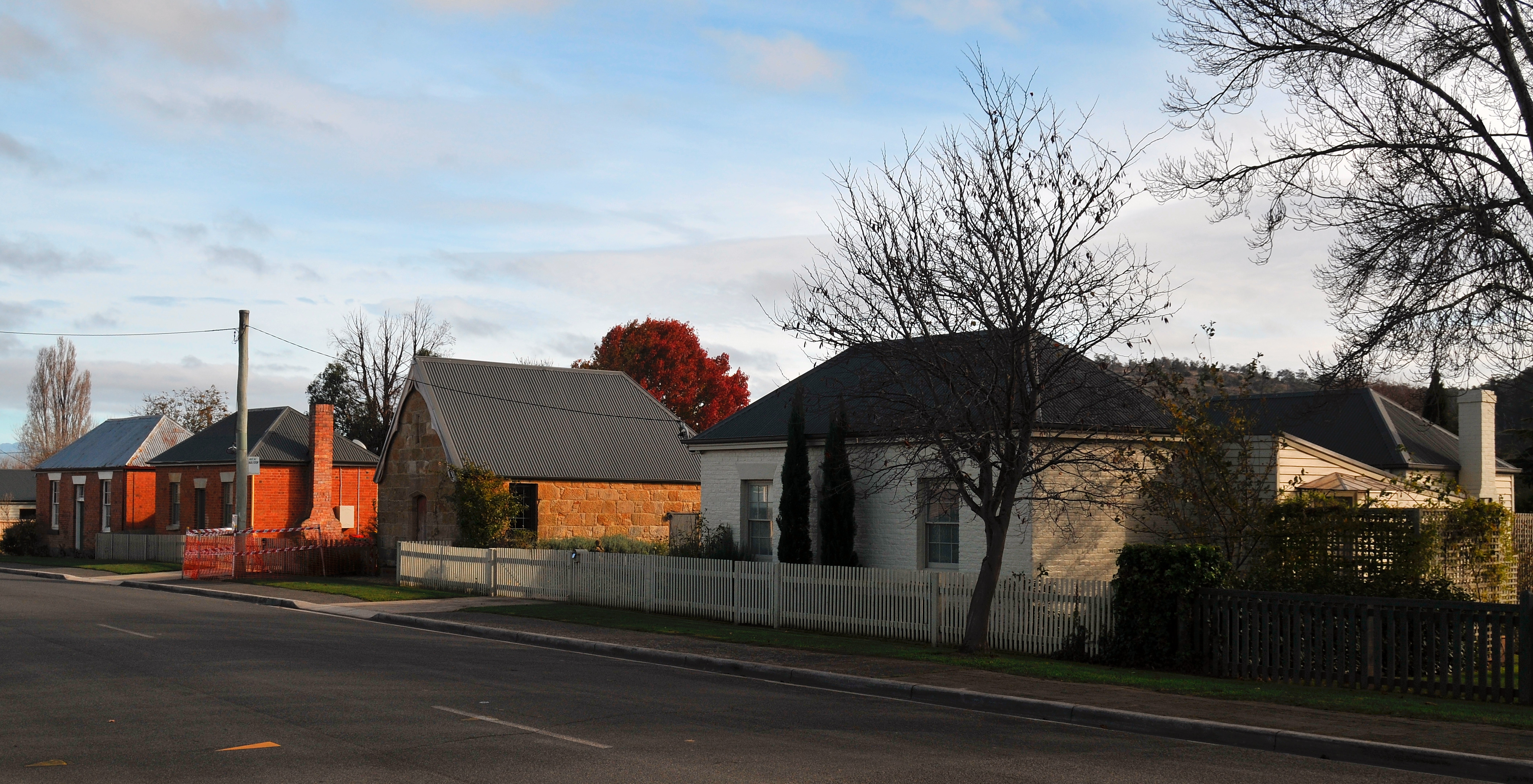 Heritage buildings c1840 in main street, Hadspen, Tasmania. Second from the right is a gaol formerly used to house convicts being transported through the town. The other three are cottages.